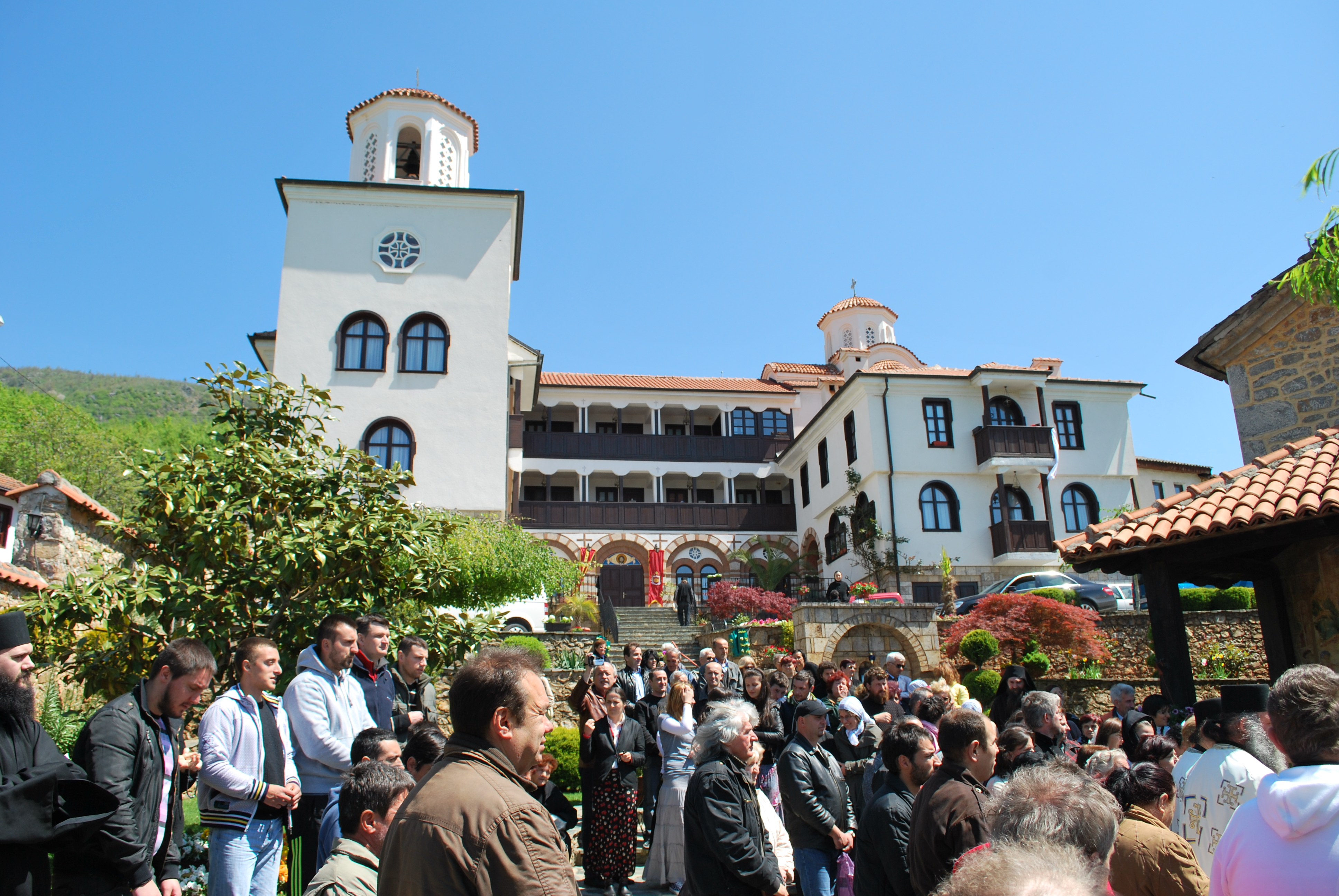 Rajčica Monastery, Macedonia